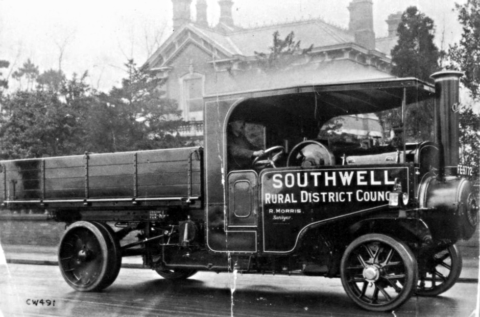 Clayton & Shuttleworth steam wagonReg FE9772 with unusual forged steel wheels. A Brass Clayton emblem on chimney finishes it off. A factory photo.